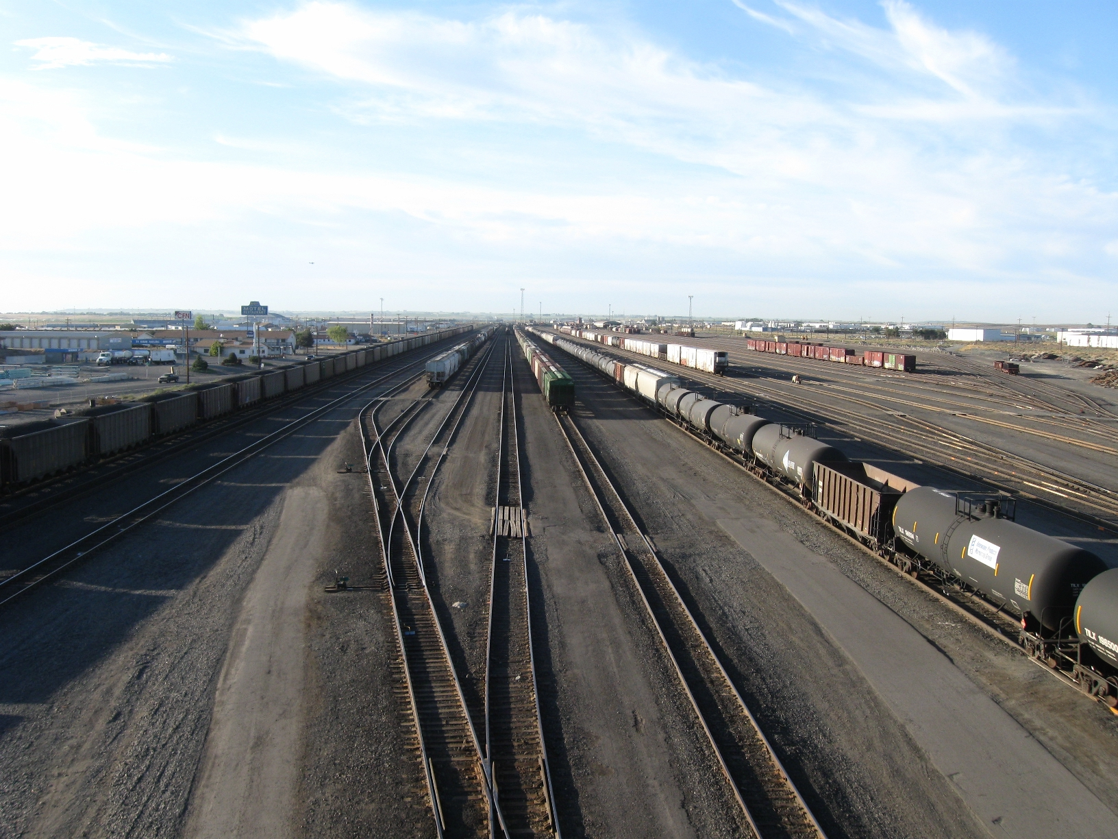 Rail switchyard at Pasco, Washington